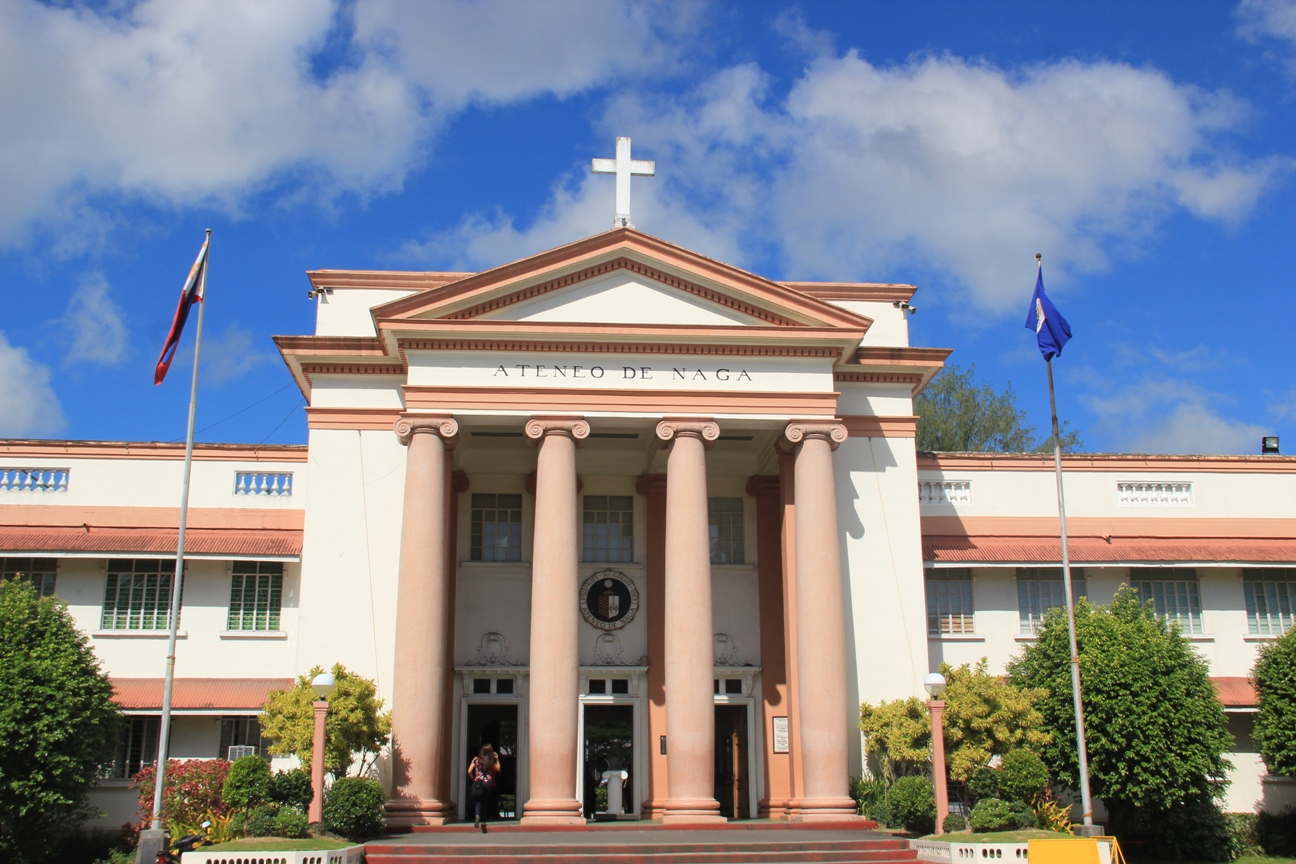 ADNU Four Pillars